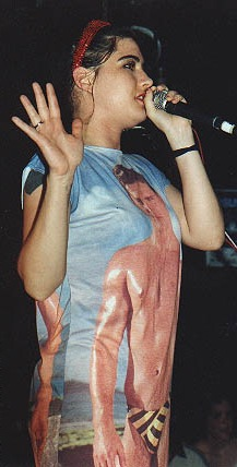 photo by Denis Gray Kathleen Hanna with Bikini Kill - 17 January, 1996 - Annandale Hotel, Sydney Australia Terms of Use: All users of this image are required to attribute this work to "Denis Gray"